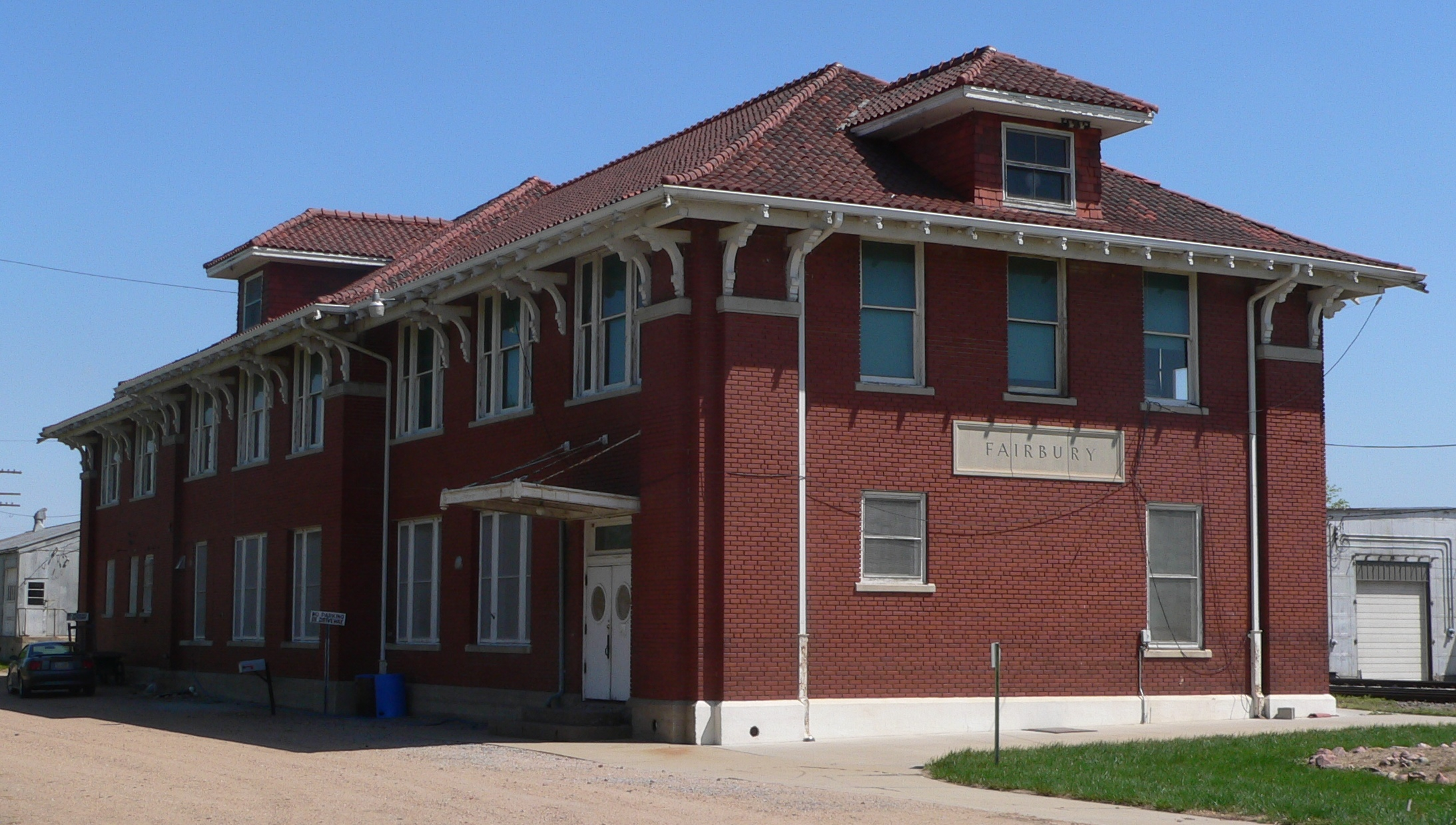 Rock Island Railroad Depot Museum, located at 910 2nd Street in Fairbury, Nebraska; seen from the northwest. The railroad tracks are south of the building.